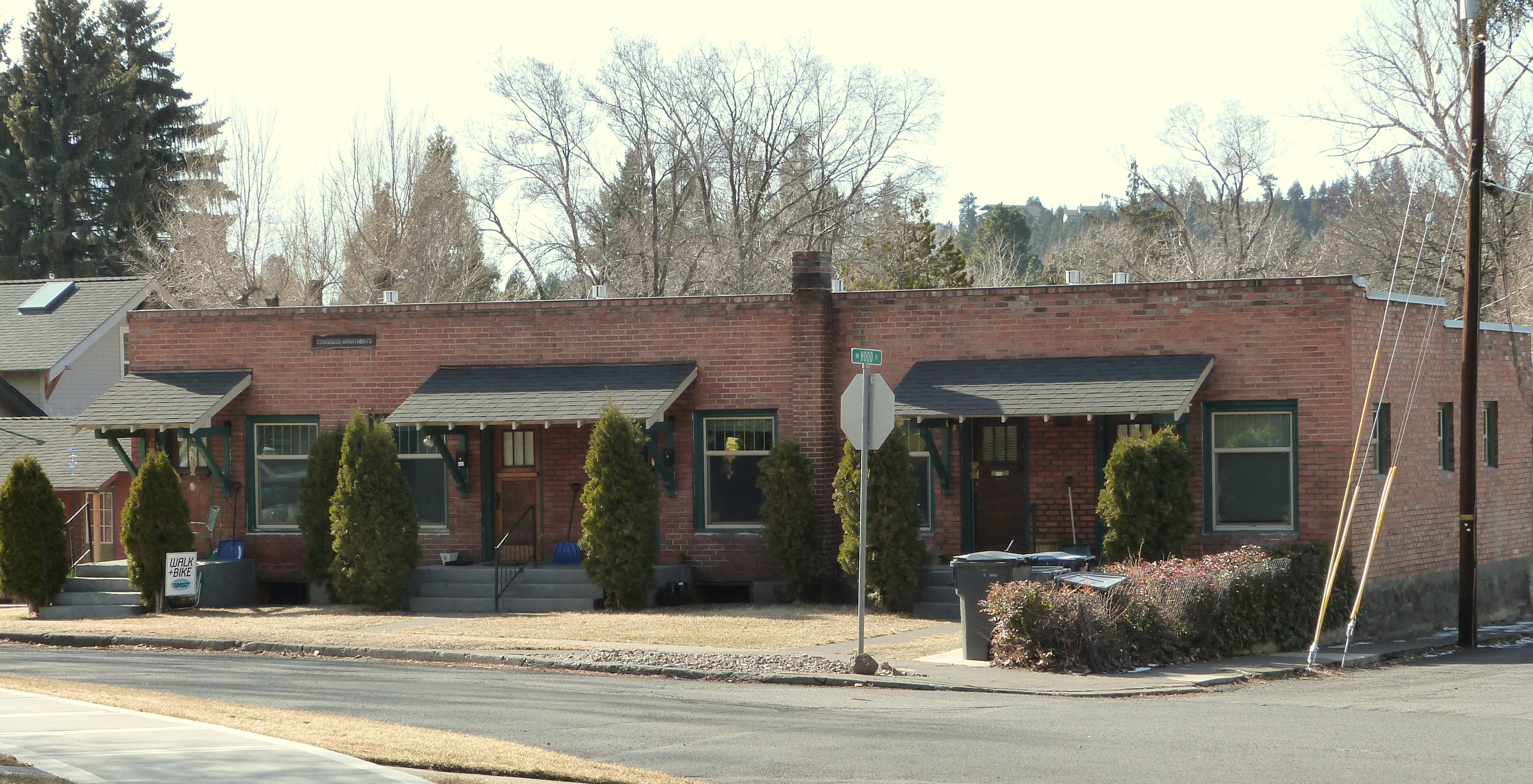 The historic Congress Apartments (built 1924), located at 221-229 Northwest Congress Street in Bend, Oregon, United States, is listed on the US National Register of Historic Places.